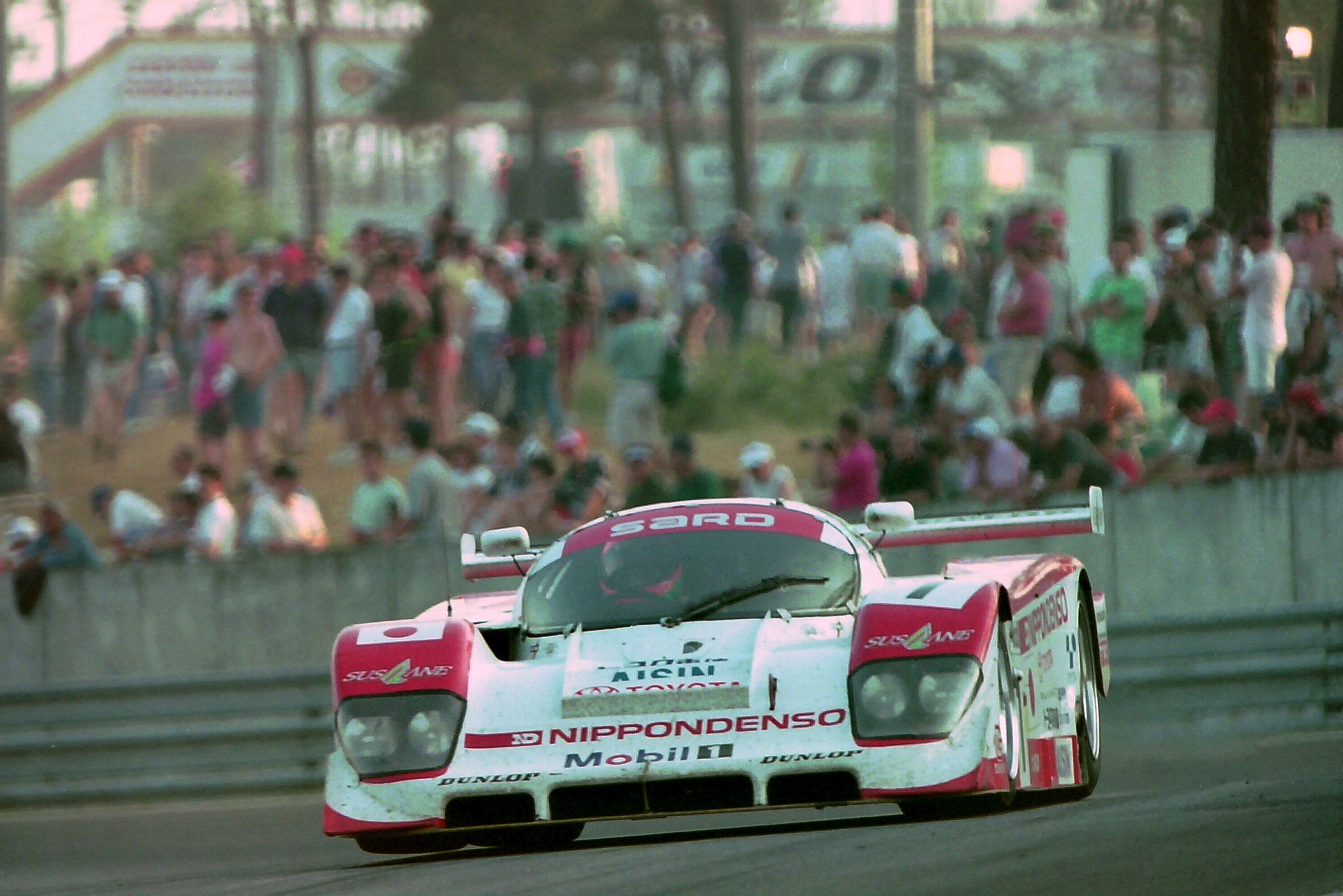 Toyota 94C-V - Mauro Martini, Jeff Krosnoff & Eddie Irvine exits the Esses at the 1994 Le Mans